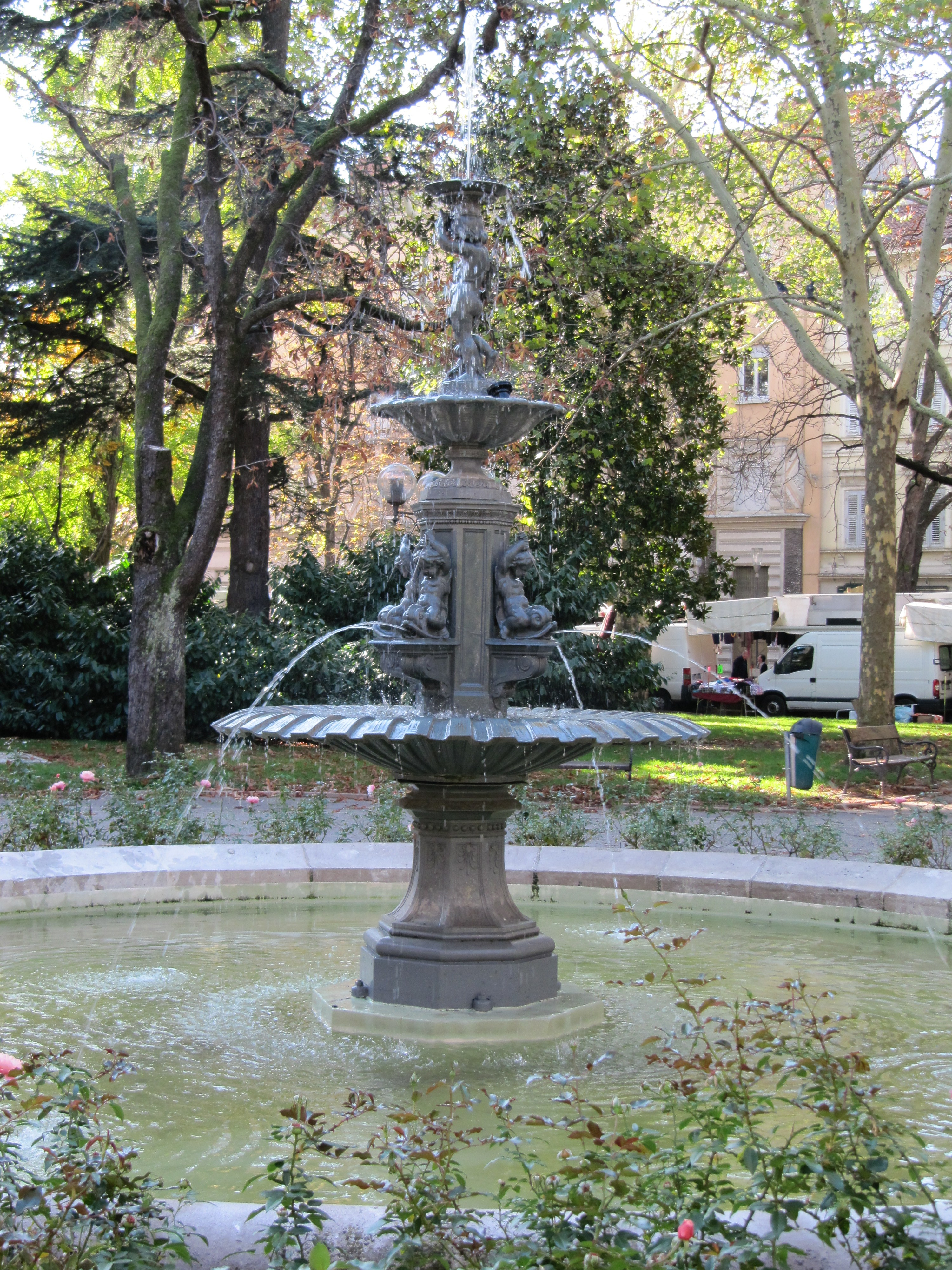 Fountain, Gorizia, Italy.